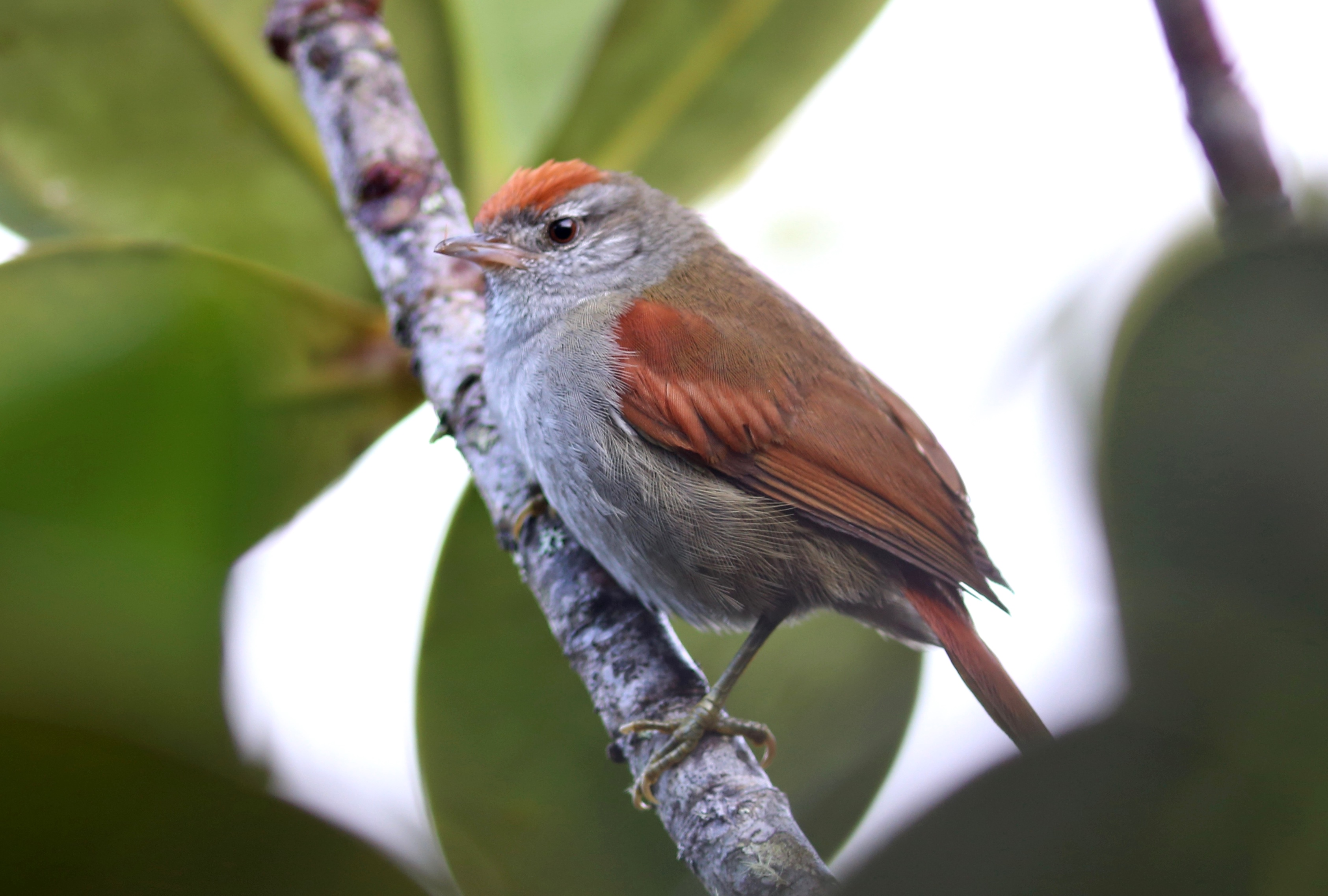 Tepui Spinetail; Mount Roraima, Venezuela